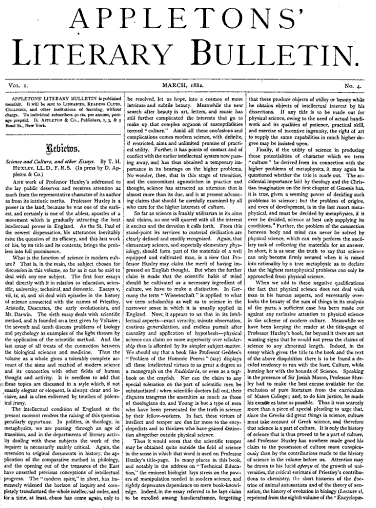 Appleton's Literary Bulletin v1 no4